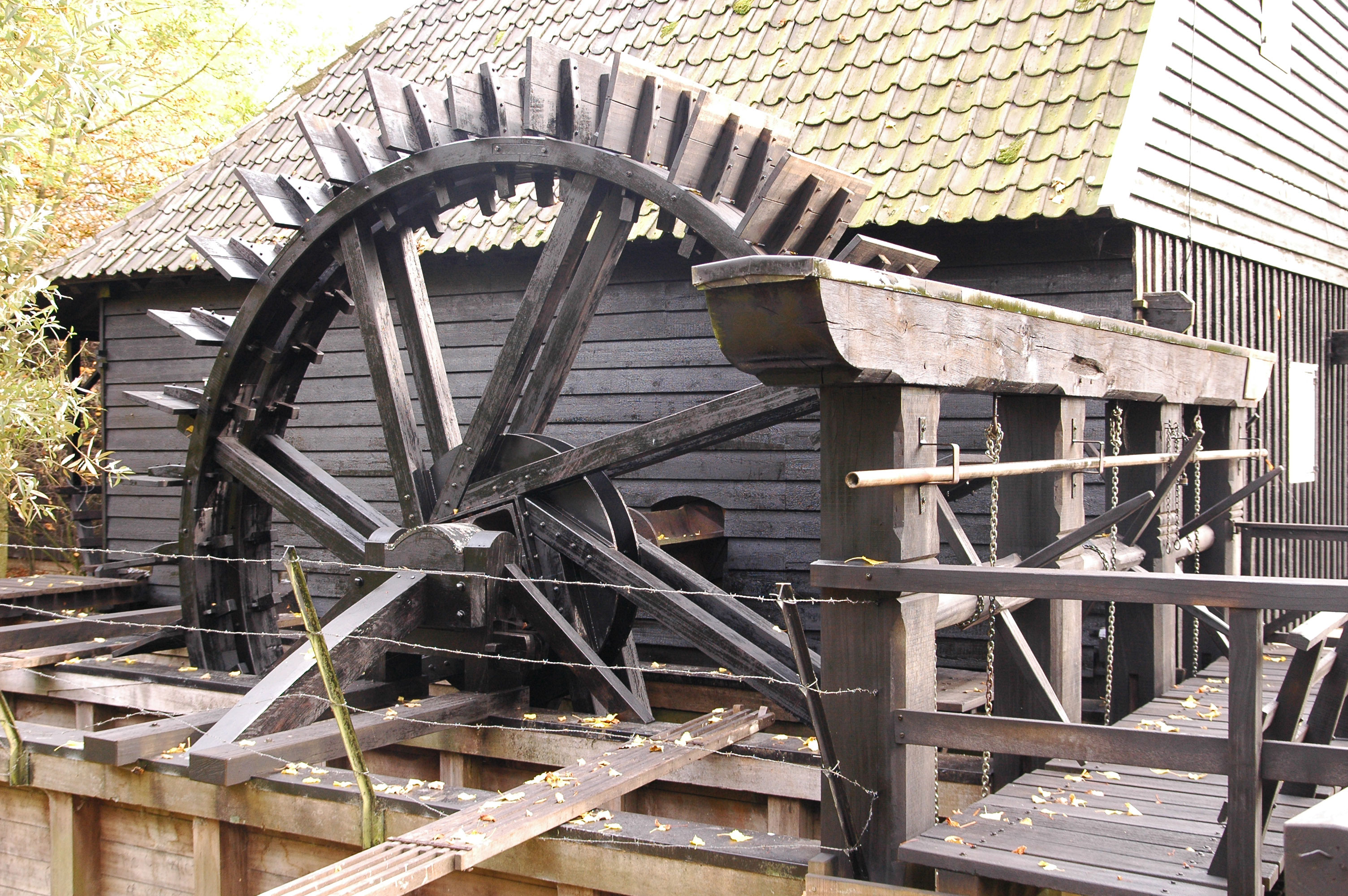 Waterwheel of Genneper watermill, Eindhoven, The Netherlands